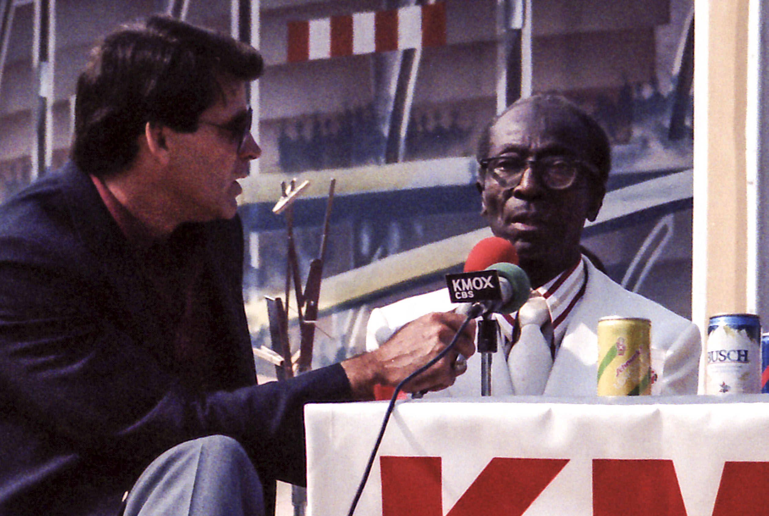 James "Cool Papa" Bell interviewed by Mike Shannon. 1987